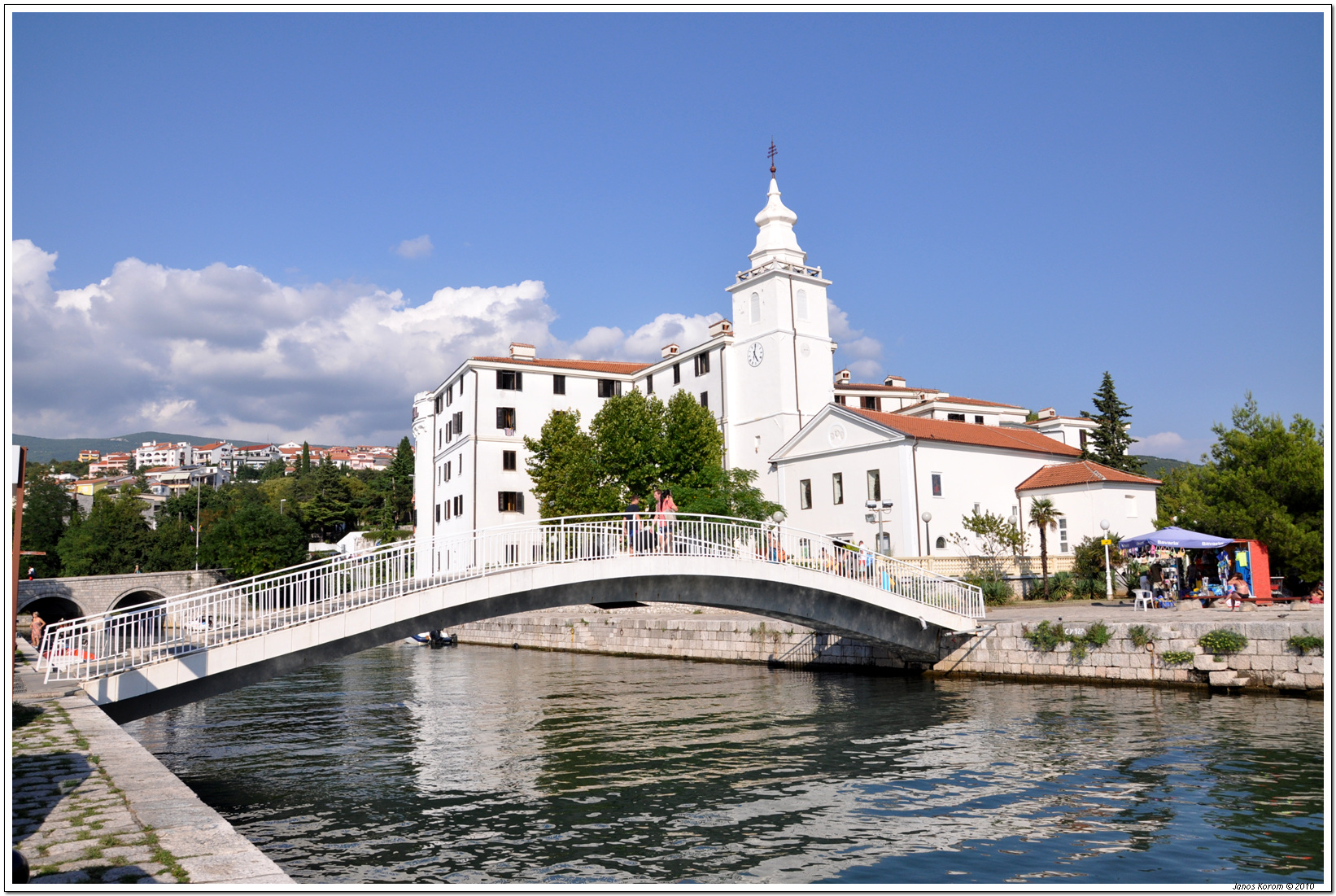 Church of the Assumption of the Blessed Virgin Mary, Crikvenica, Croatia.